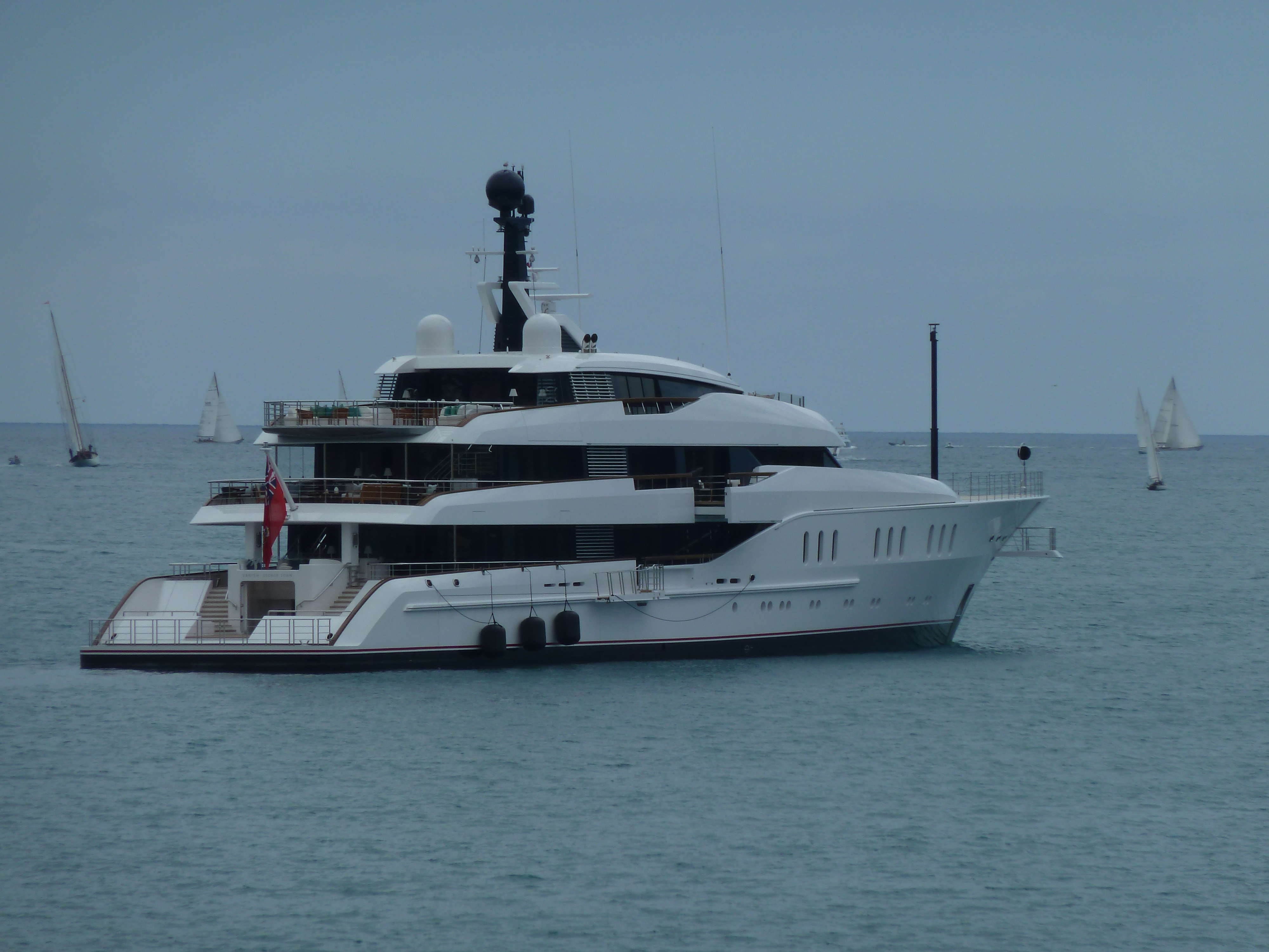 Vanish at Antibes